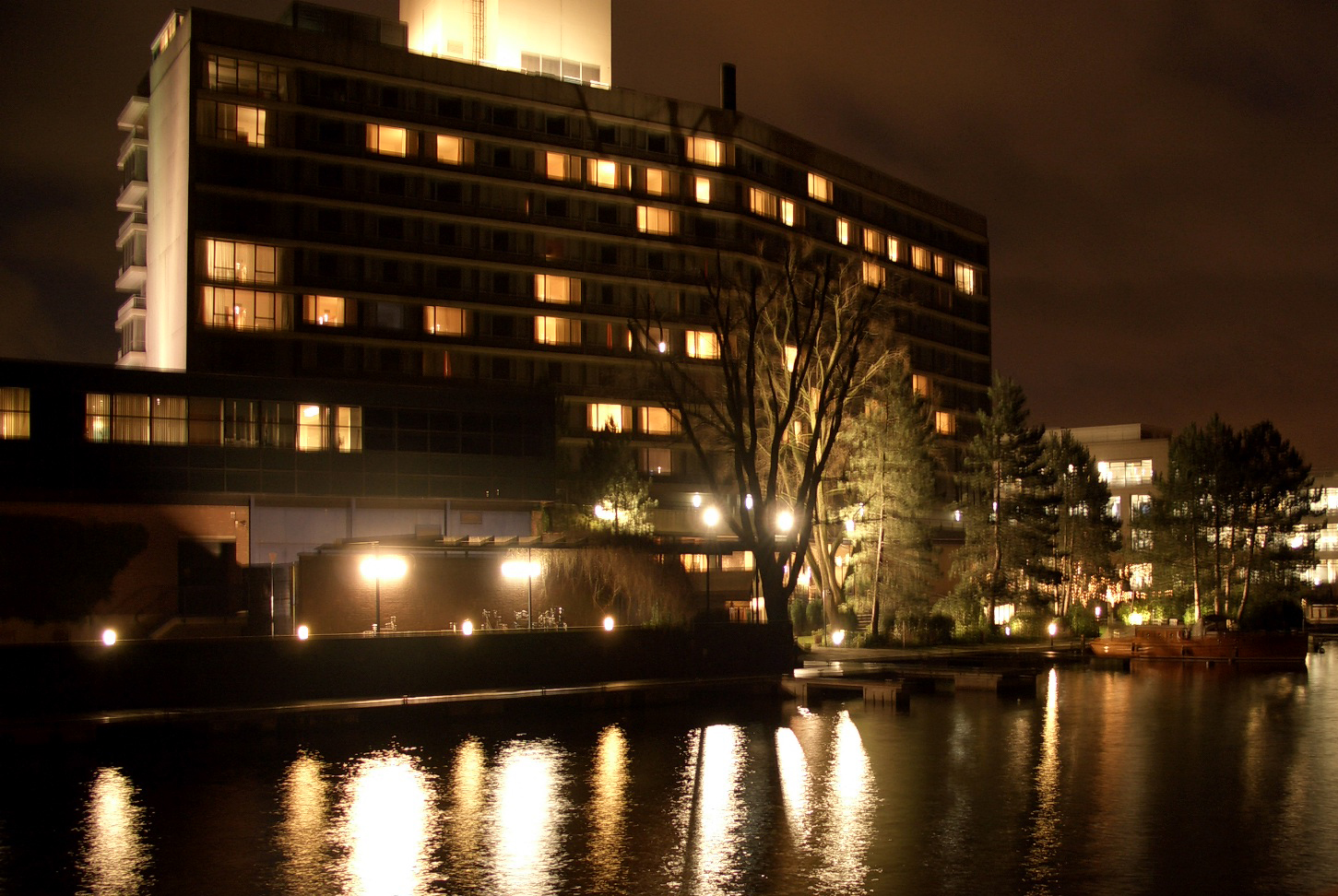 The Amsterdam Hilton at night